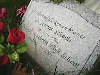 Stone to honor Holyoke Catholic's original location in Holyoke, Ma